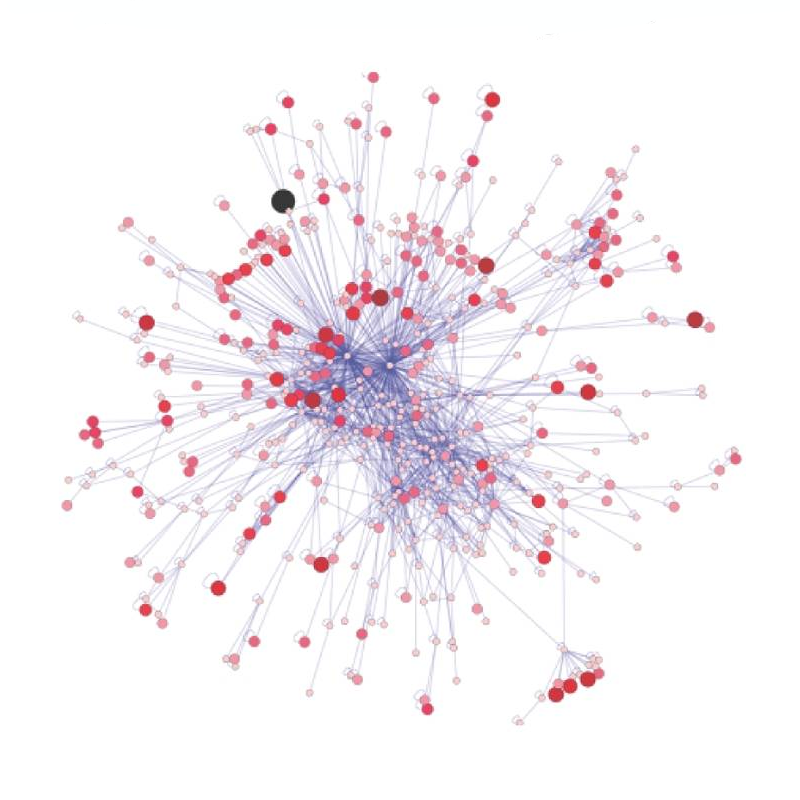 Graphical network